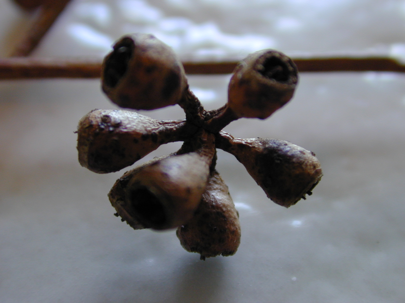 Eucalyptus crebra (narrow leaved ironbark). Location: Maui, Hobdy collection